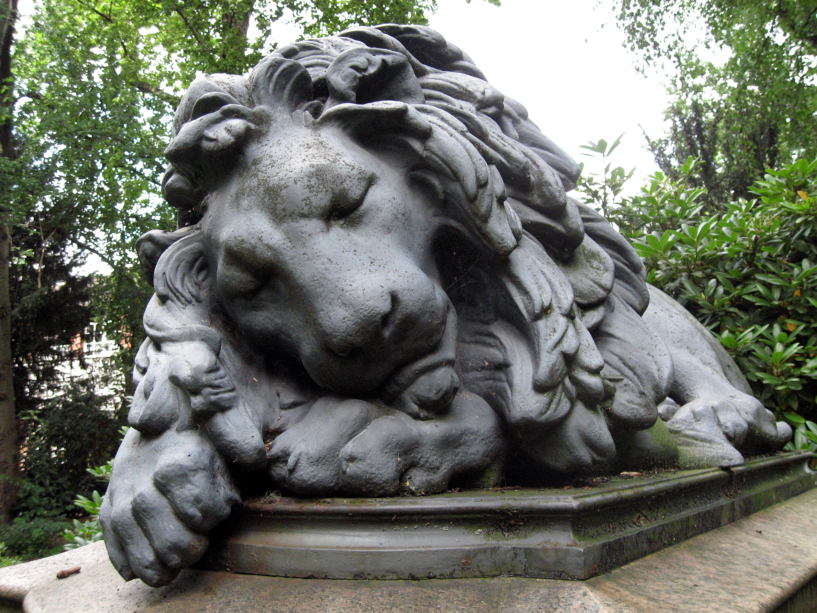 Dortmund, City West, Westpark, Memorial for World War I, sleeping lion